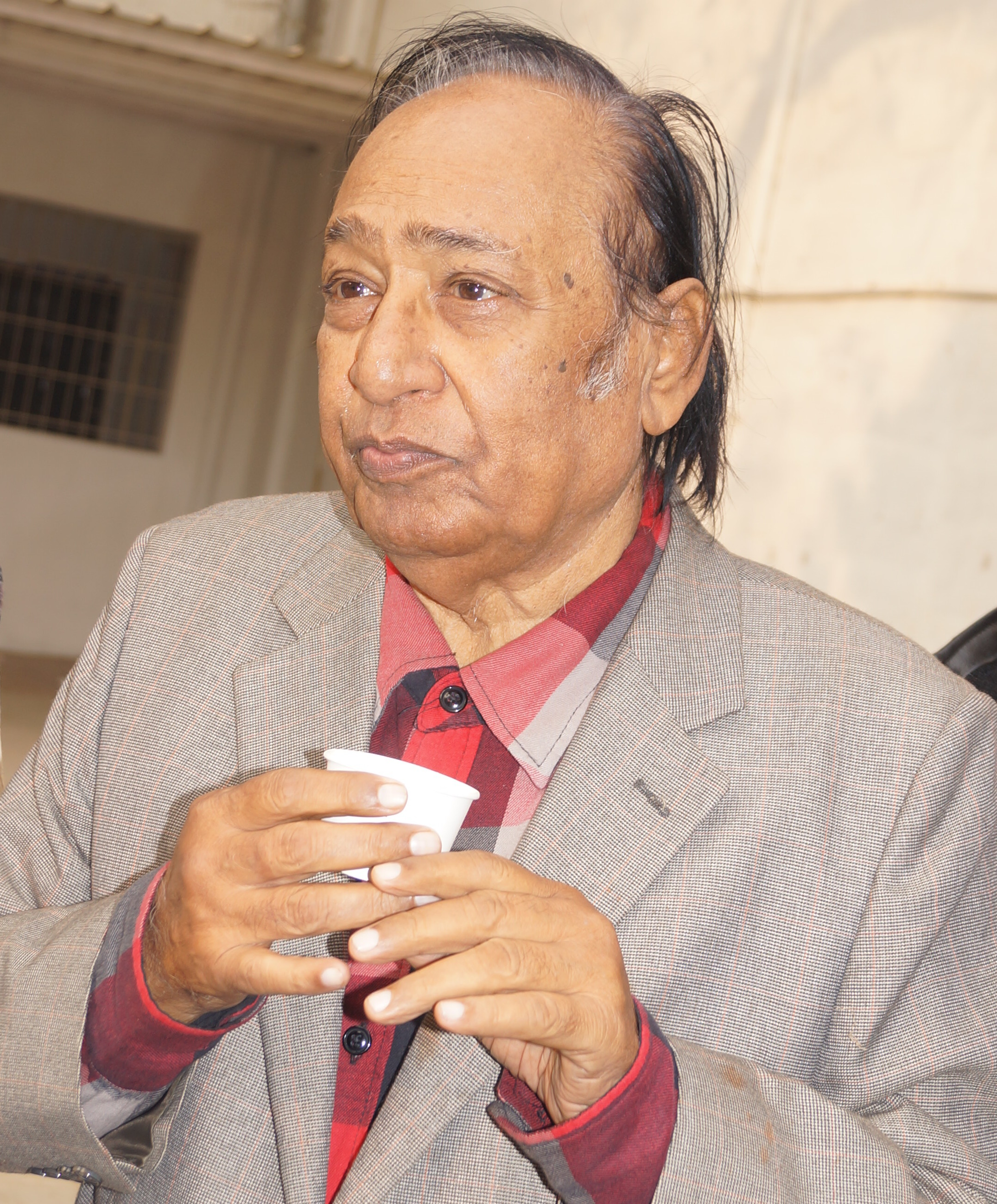 The great actor from Gujarat, Upendra Trivedi at 47th Adhiveshan of Gujarati Sahitya Parishad, Aanand, Gujarat, India.